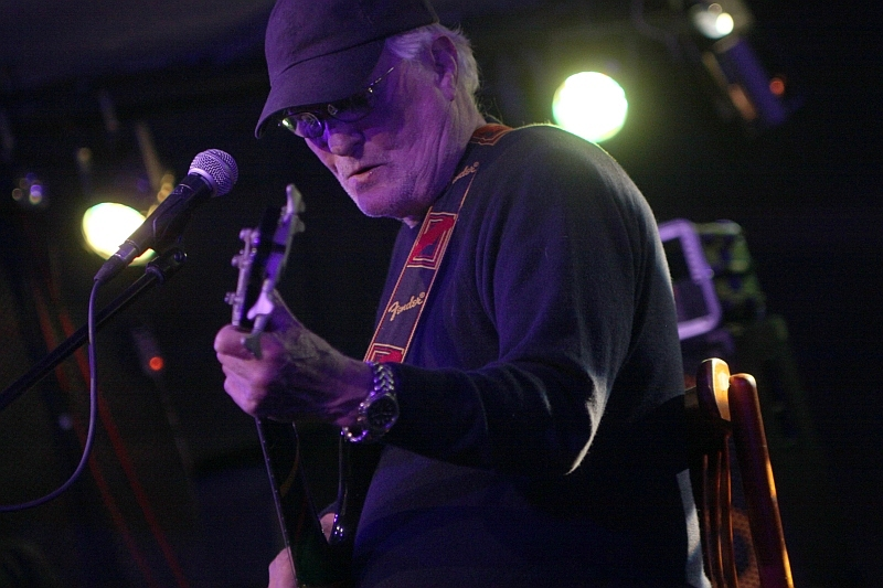 Lee Dorman from Iron Buterfly (In-A-Gadda-Da Tour 2012, Retro Music Hall, Prague)